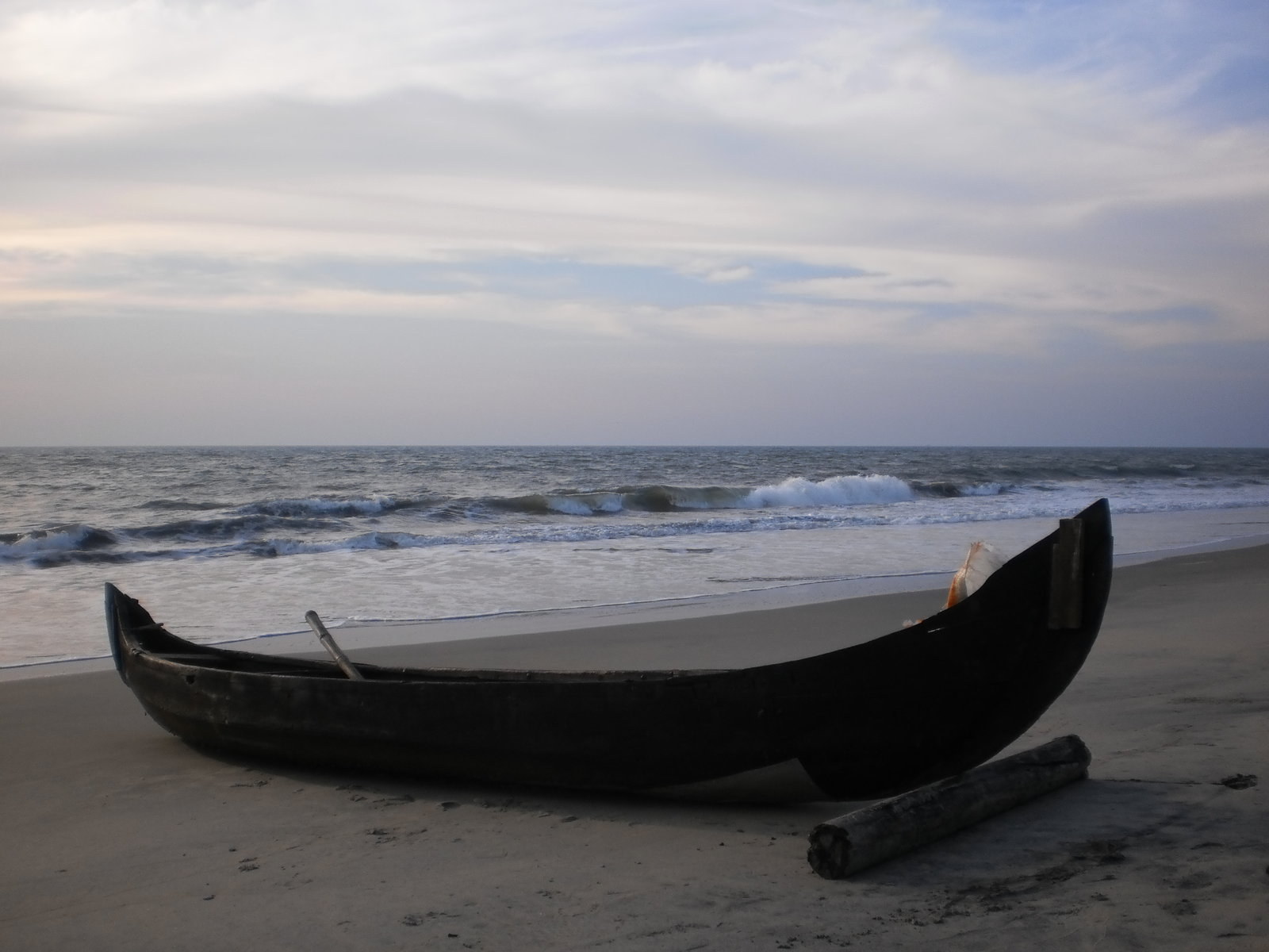 Boat, Cherai Beach